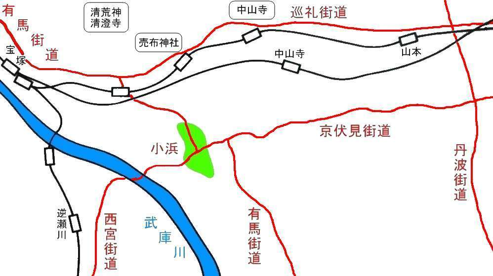 former street in Hyōgo Prefecture in Japan.